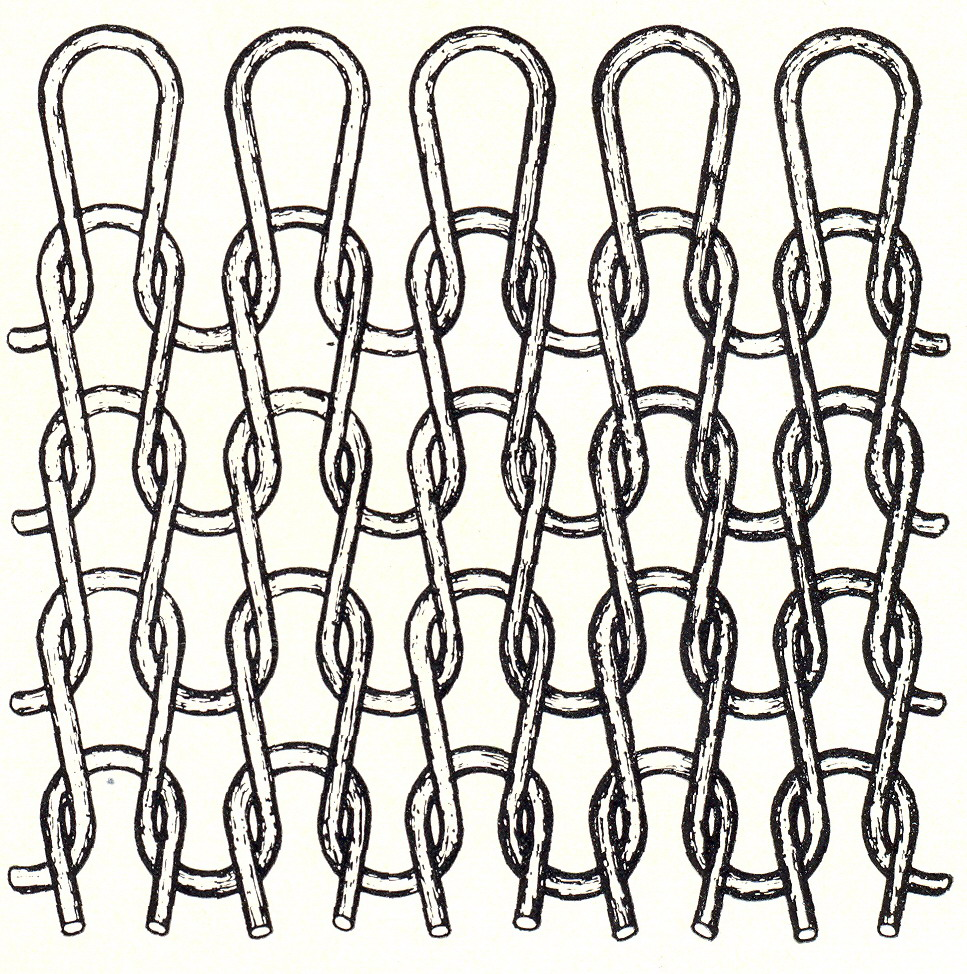 Single jersey fabric - the most simple weft knitted structure